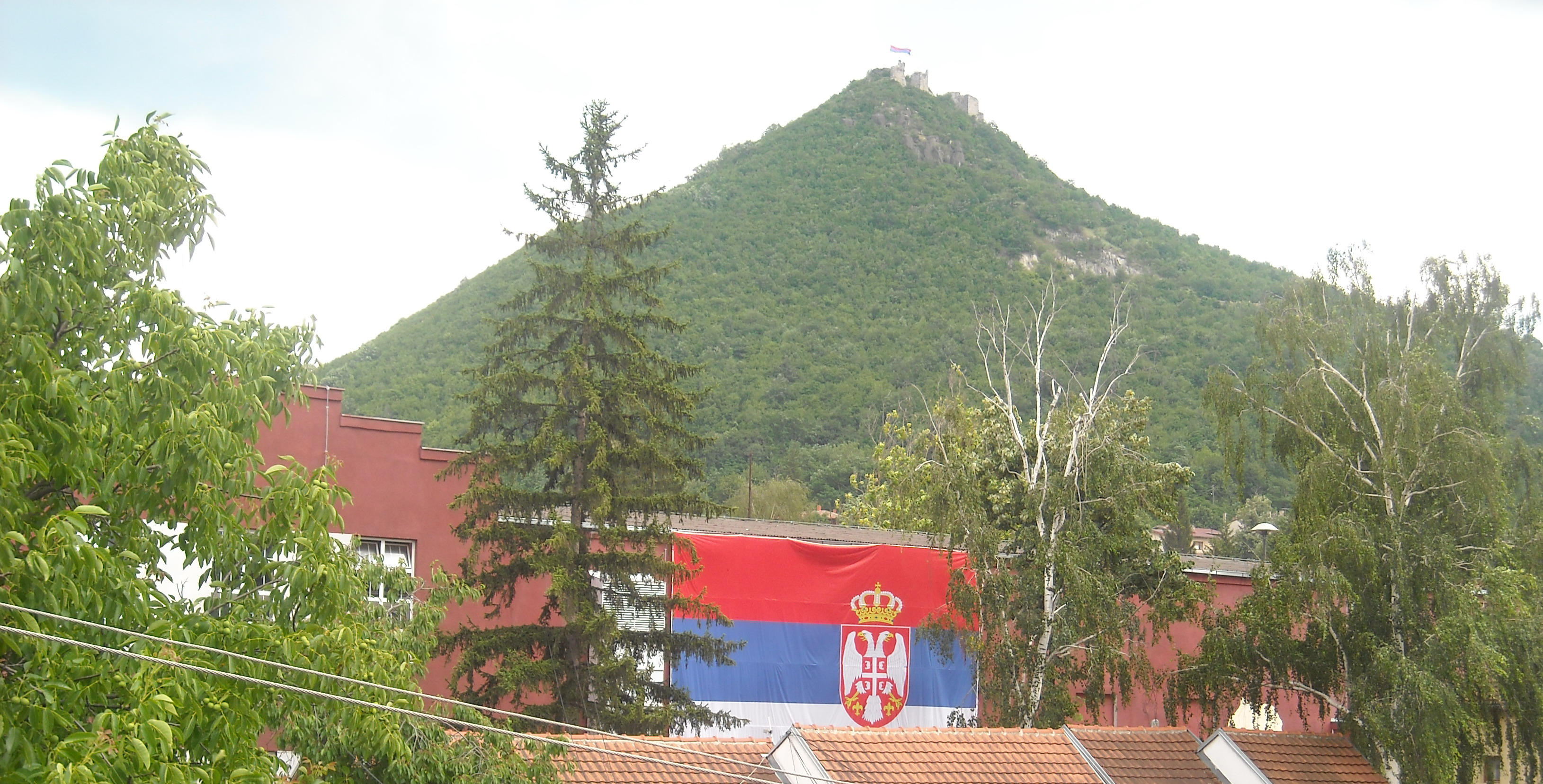 The town of Zvečan with Zvečan Fortress.